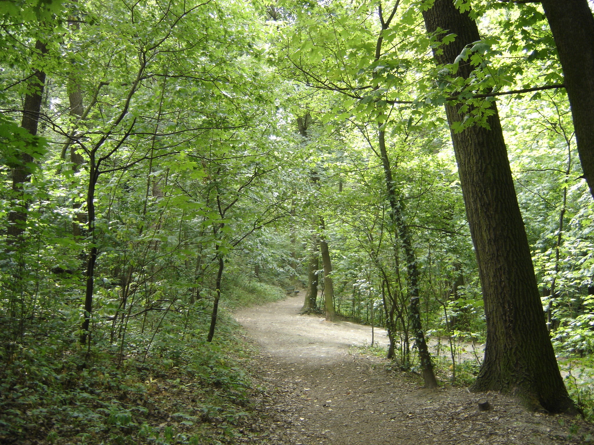 Horský park 6